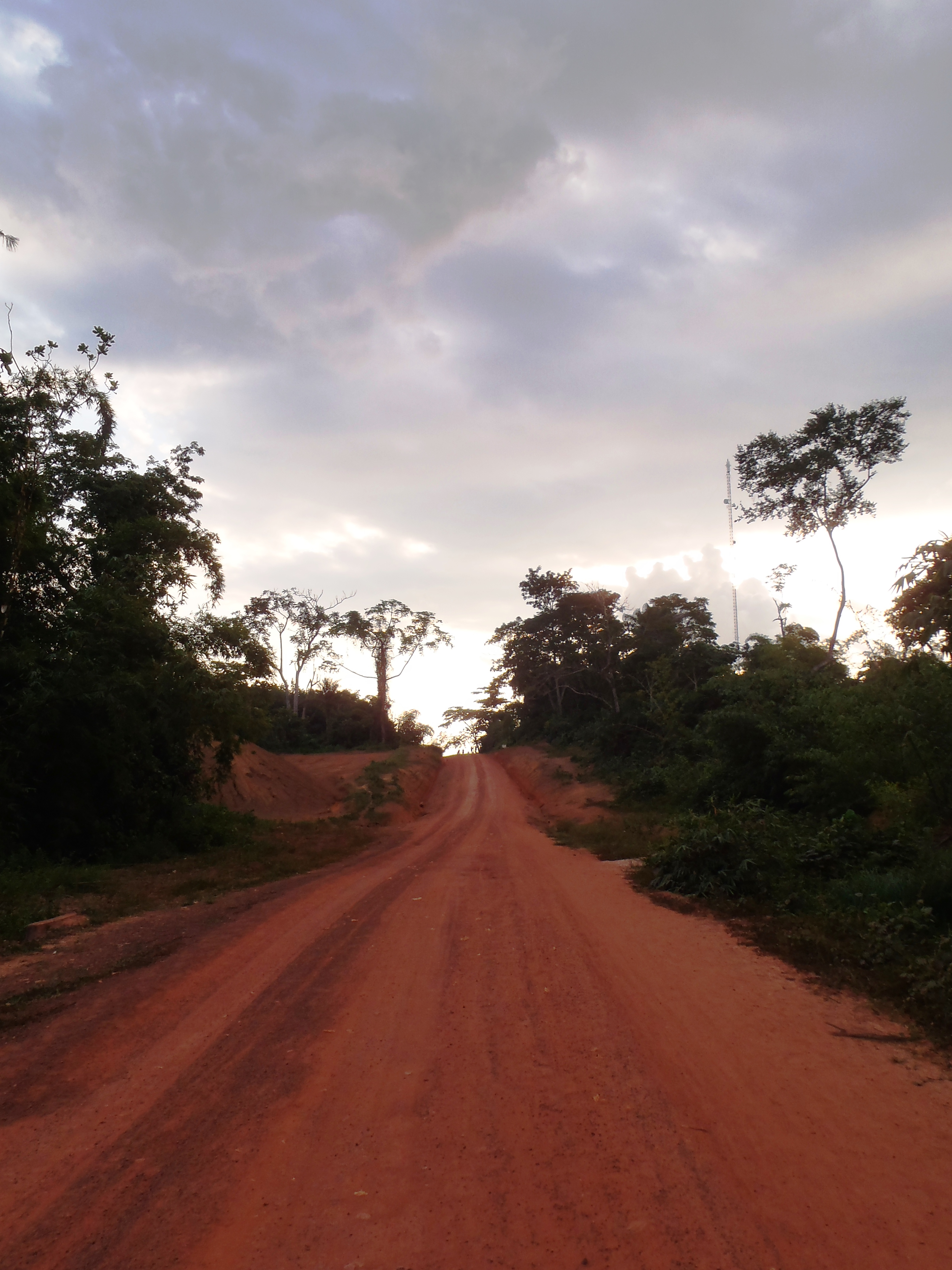 This is the road that goes to Taï - Credit: Thierry FABBIAN